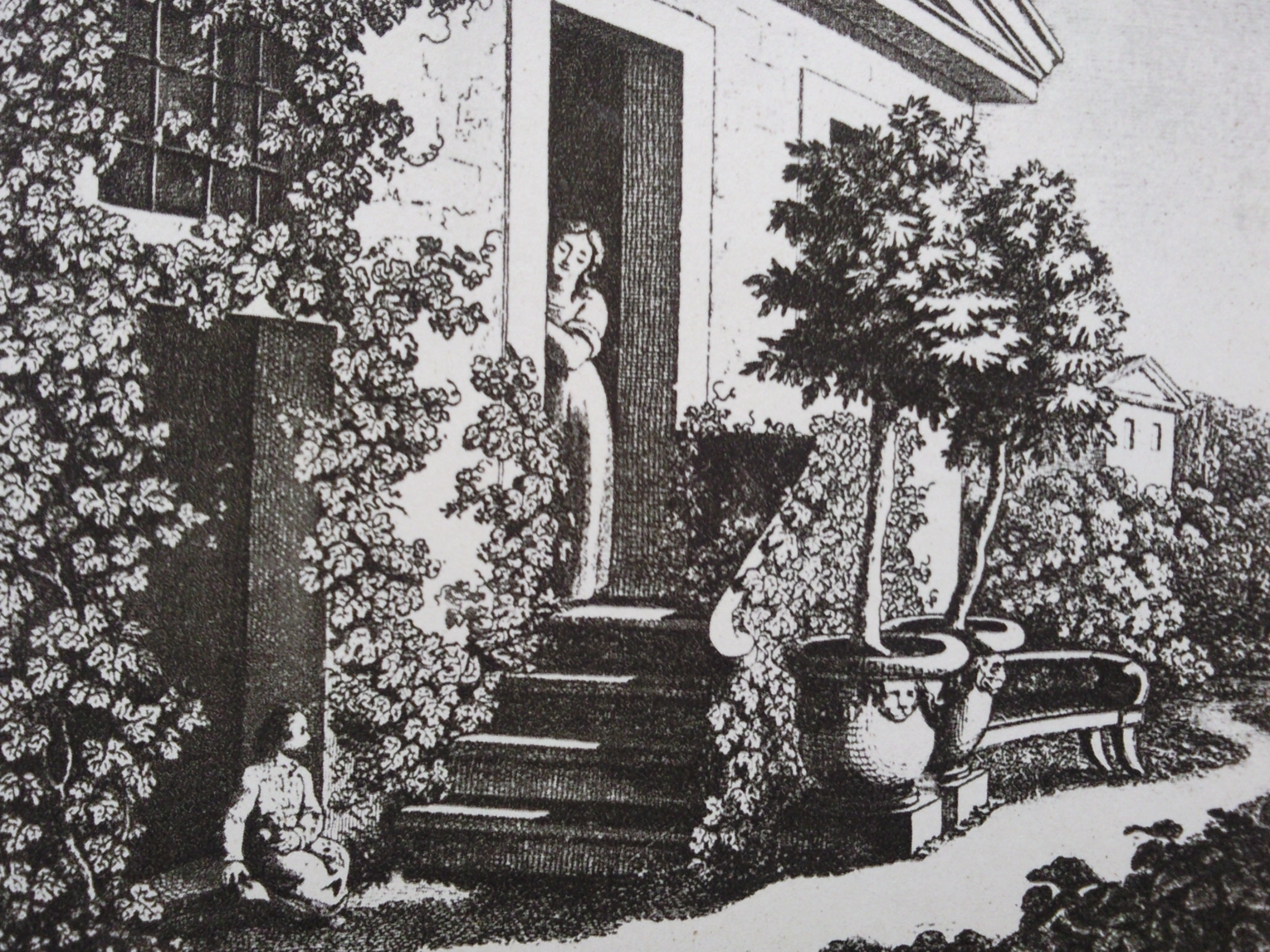 Goethes 'House Garden' with Christiane Vulpius and August by Carl Lieber according to a sketch by Goethe [1793]